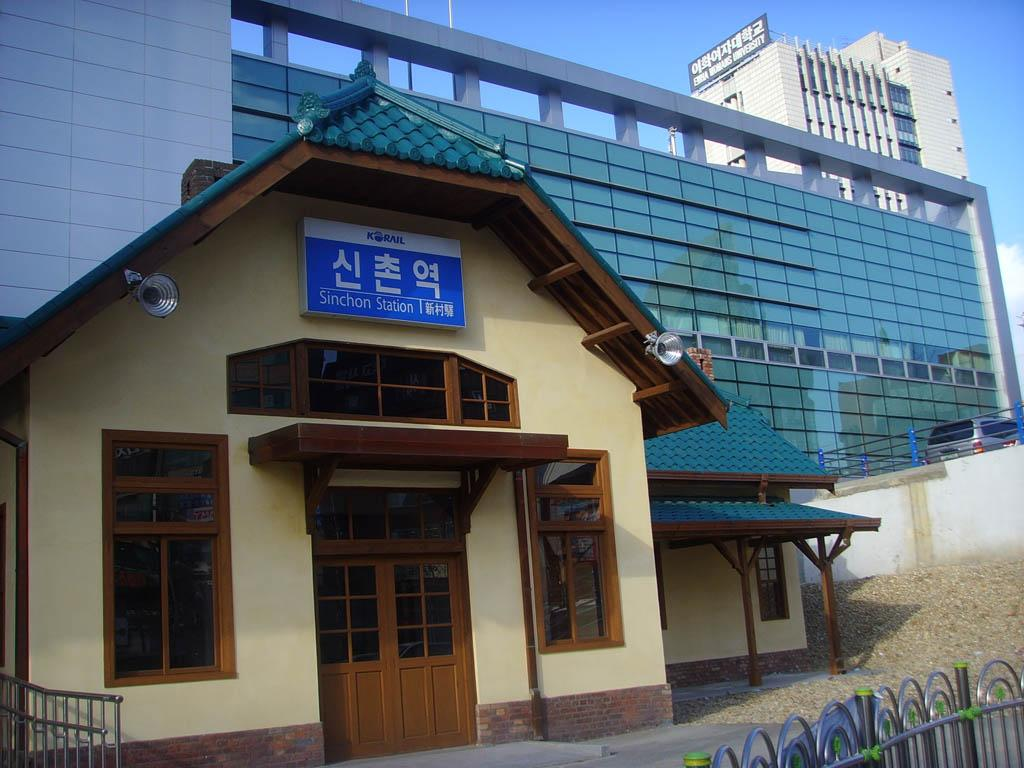 Old Sinchon Station (Gyeongui Line)